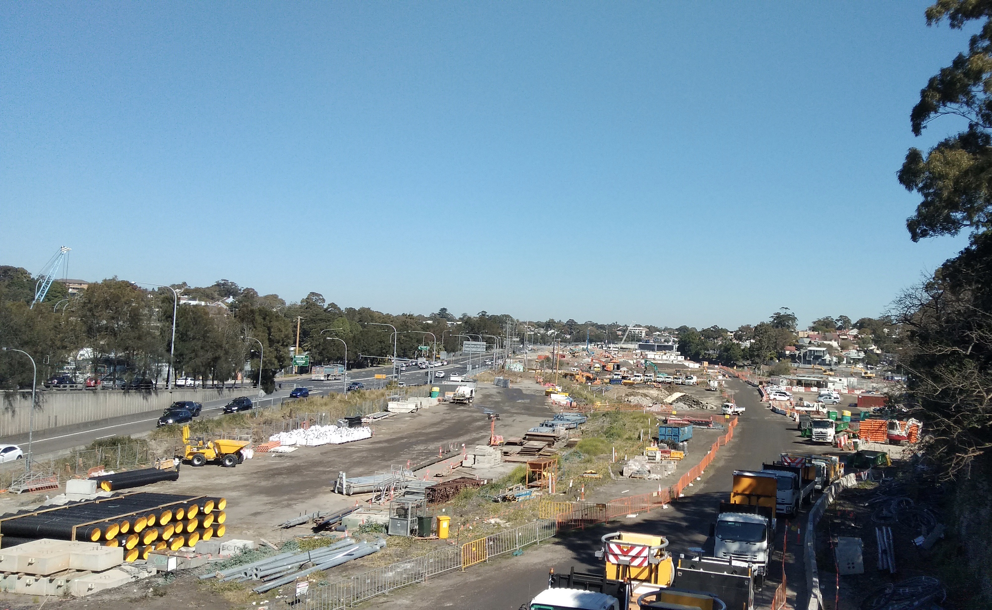 The former Rozelle railway yard on the 24th of August 2019, looking west from Victoria Road.